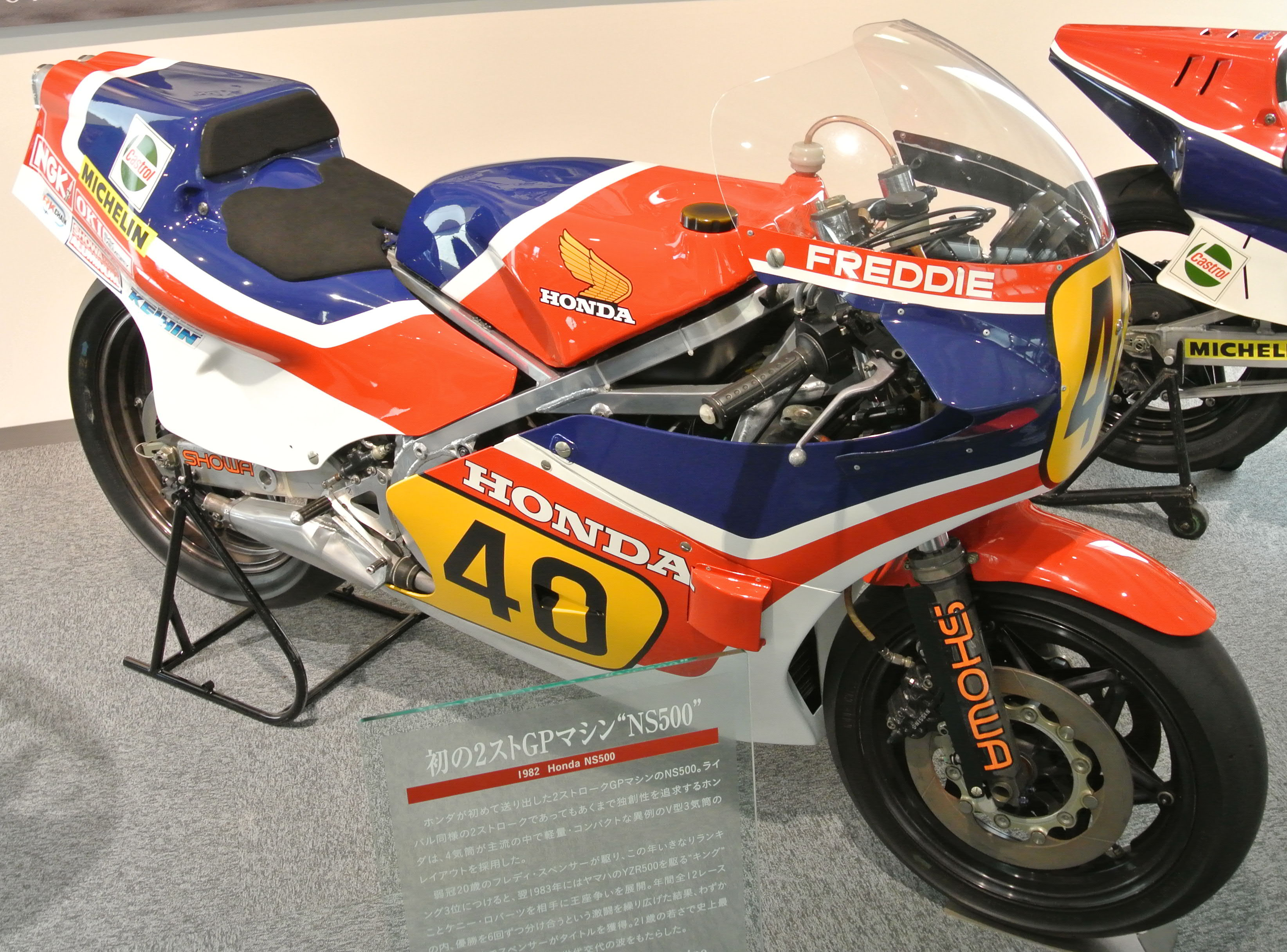 1982 NS500 in the Honda Collection Hall.